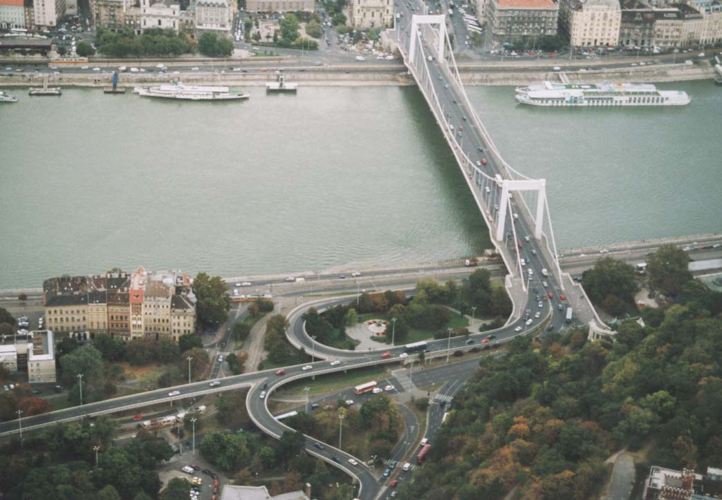 Elizabeth-Bridge - Budapest - Hungary - Europe